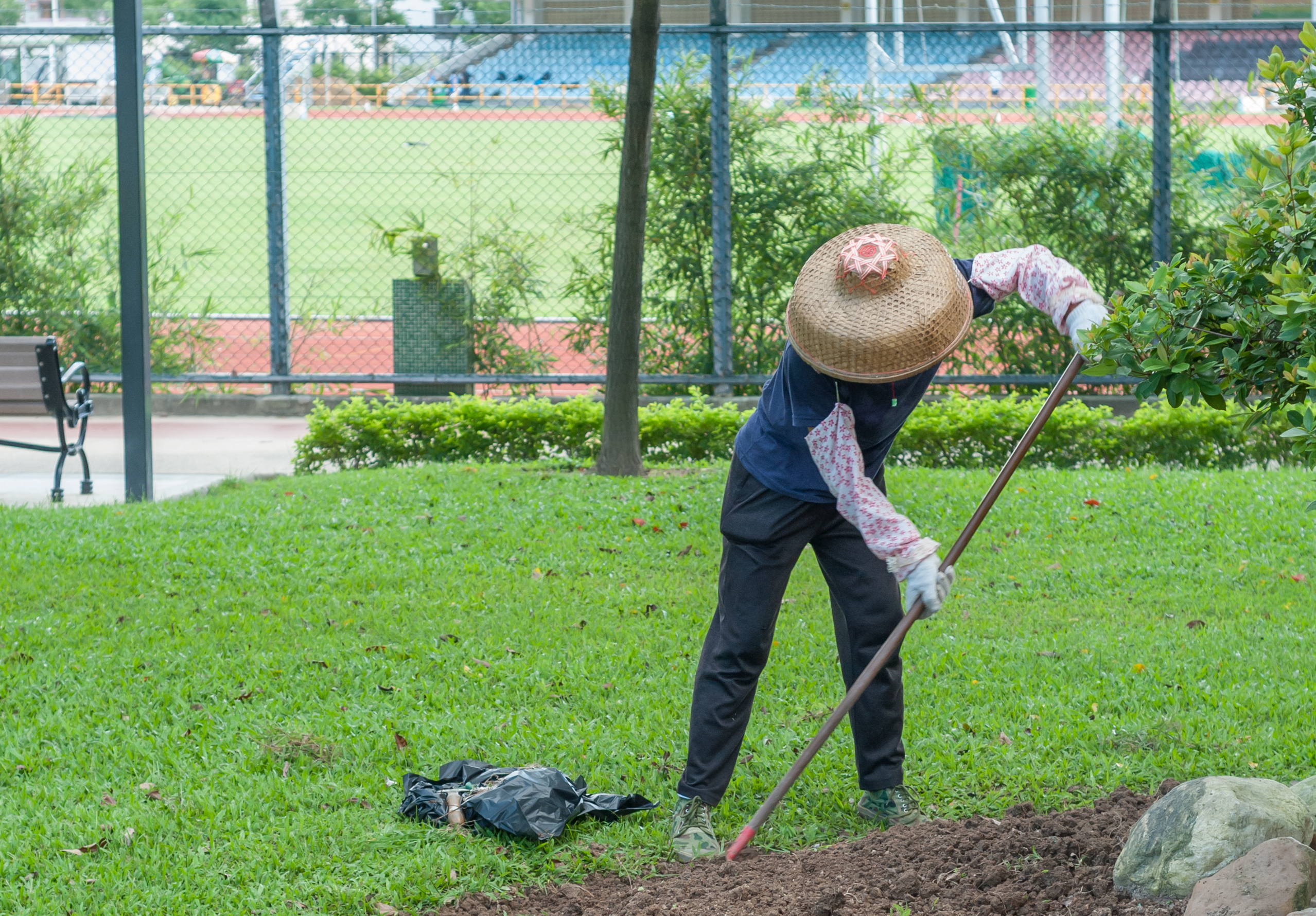 People working in Hong Kong